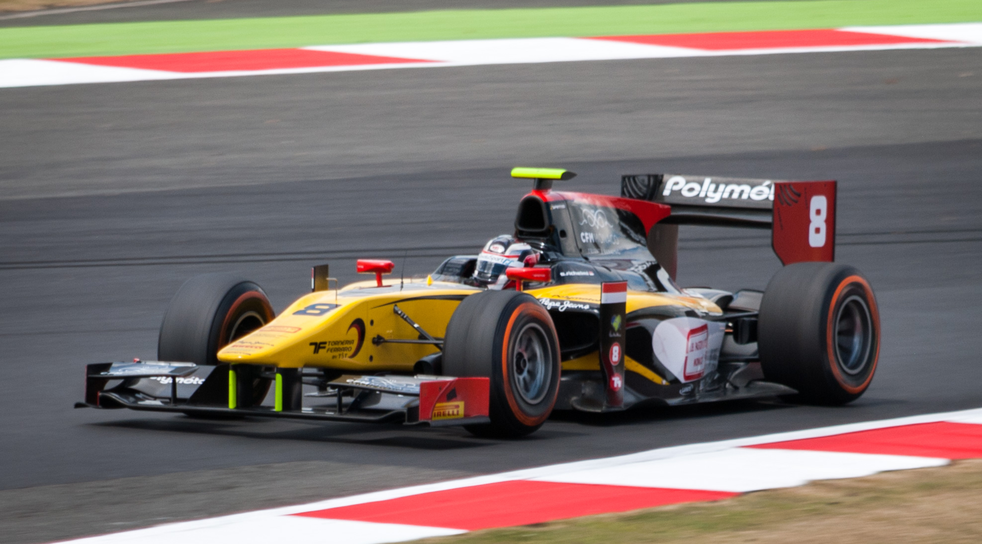 Stéphane Richelmi driving for DAMS at Silverstone. Round 5 of the 2014 GP2 Series Championship.